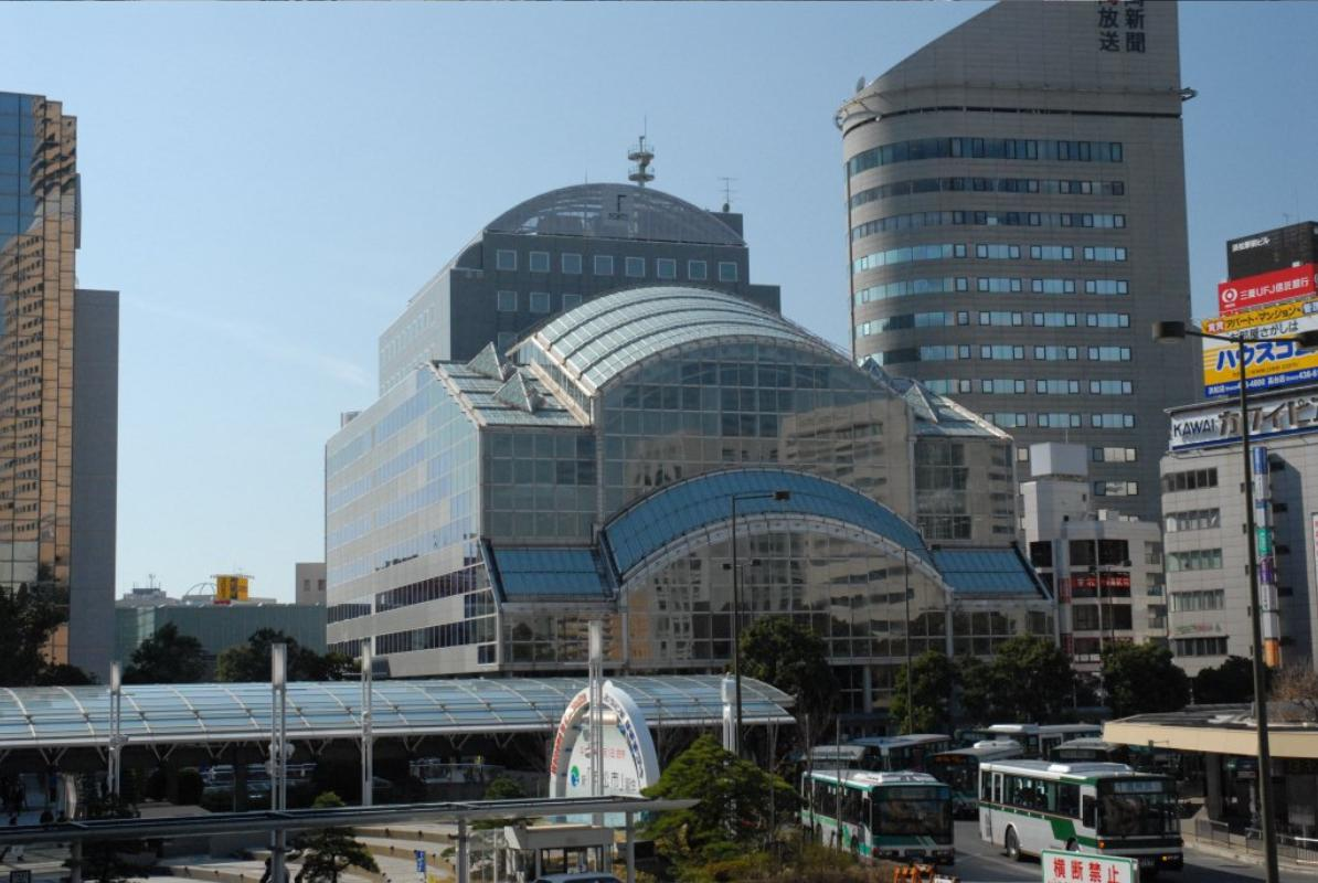 Forte bldg. Hamamatsu, Japan